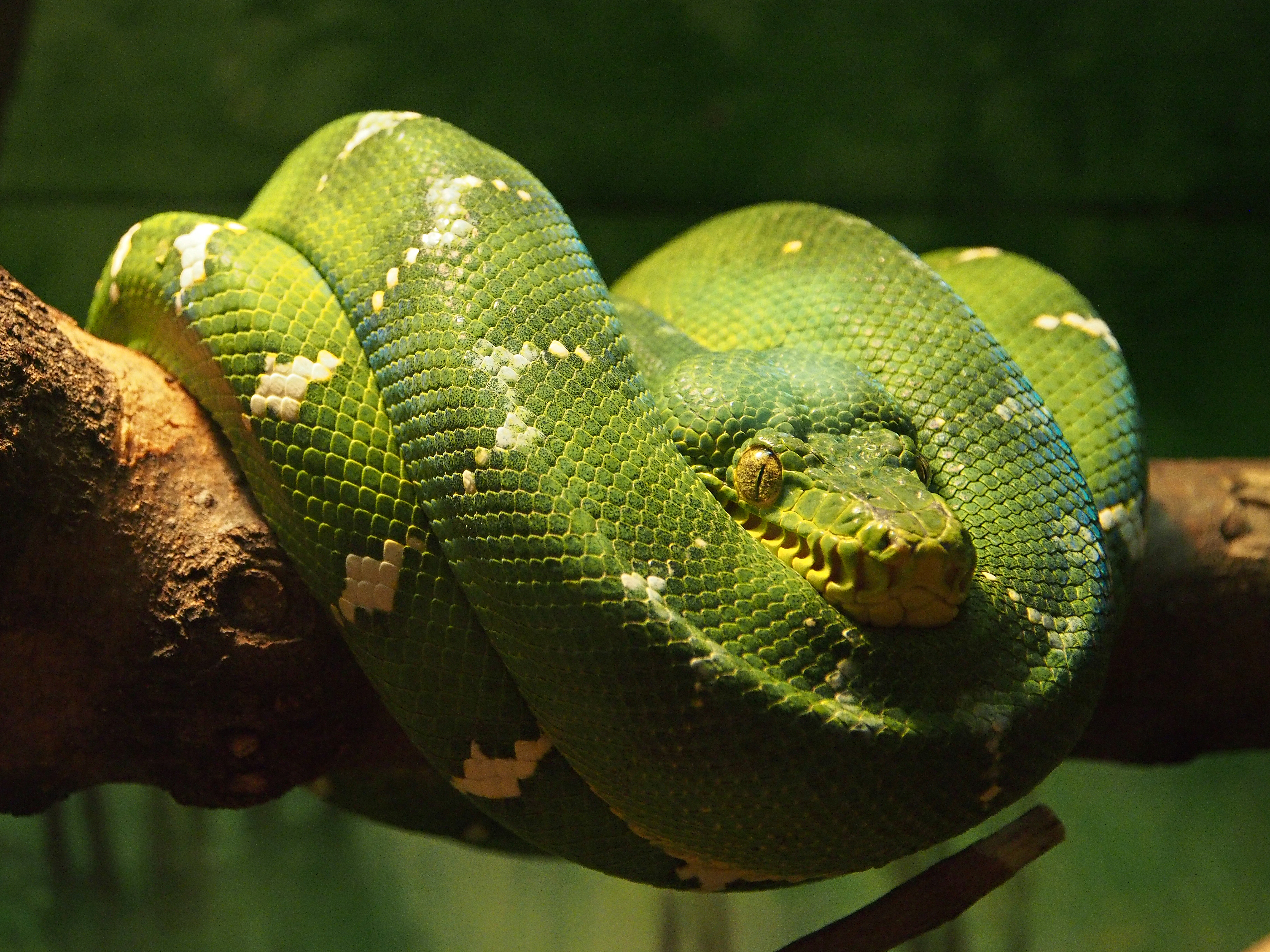 Emerald Tree Boa (Corallus caninus en ). Identified by tag at the Philadelphia Zoo